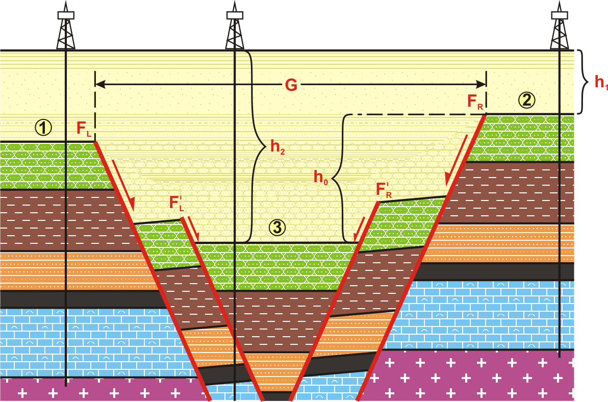 Buried graben